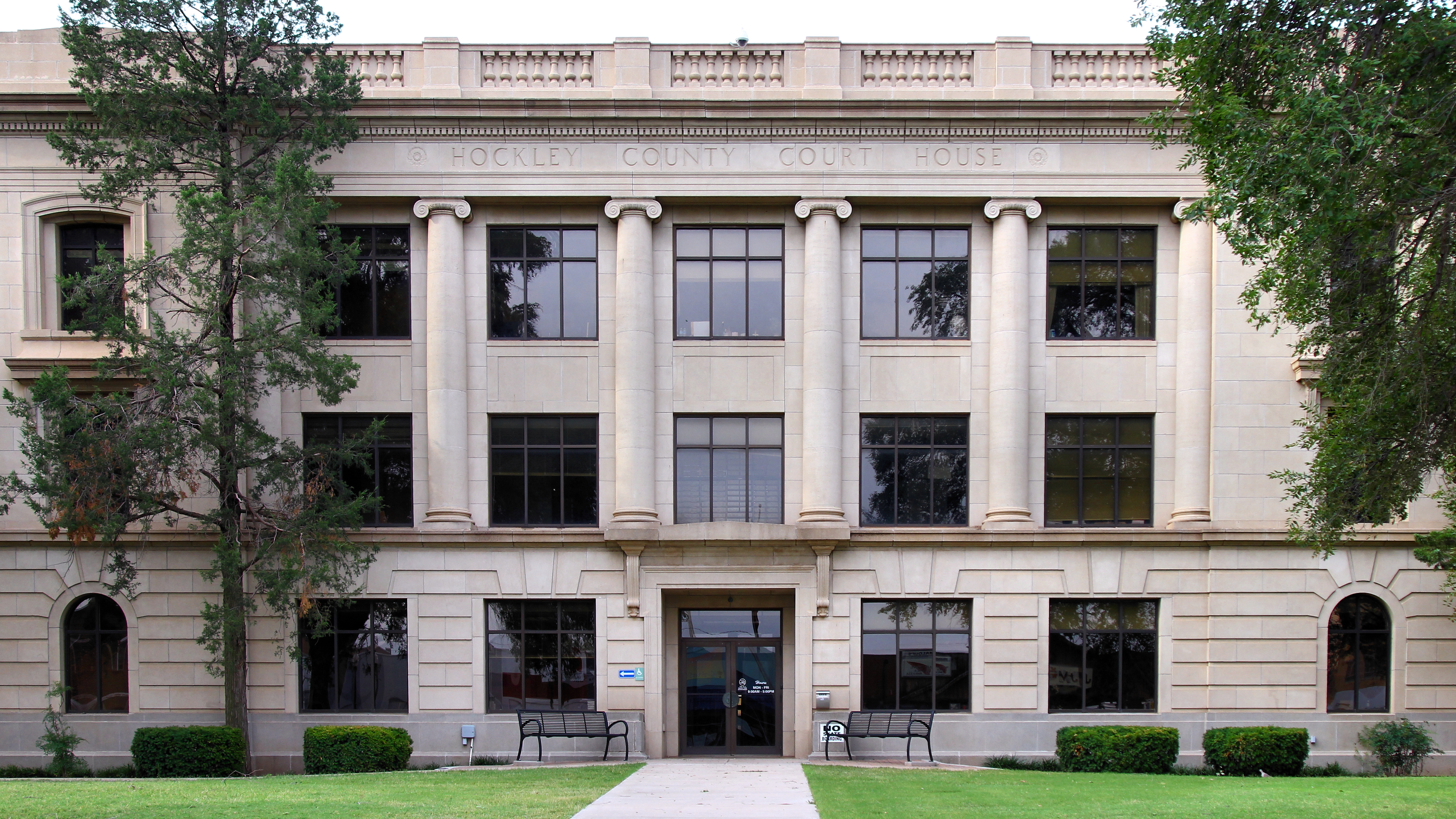 The Hockley County Courthouse in Levelland, Texas United States was built in 1928. The Butler Company of Lubbock, Texas designed the building, and Clickner Construction Company of Hutchinson, Kansas built it.